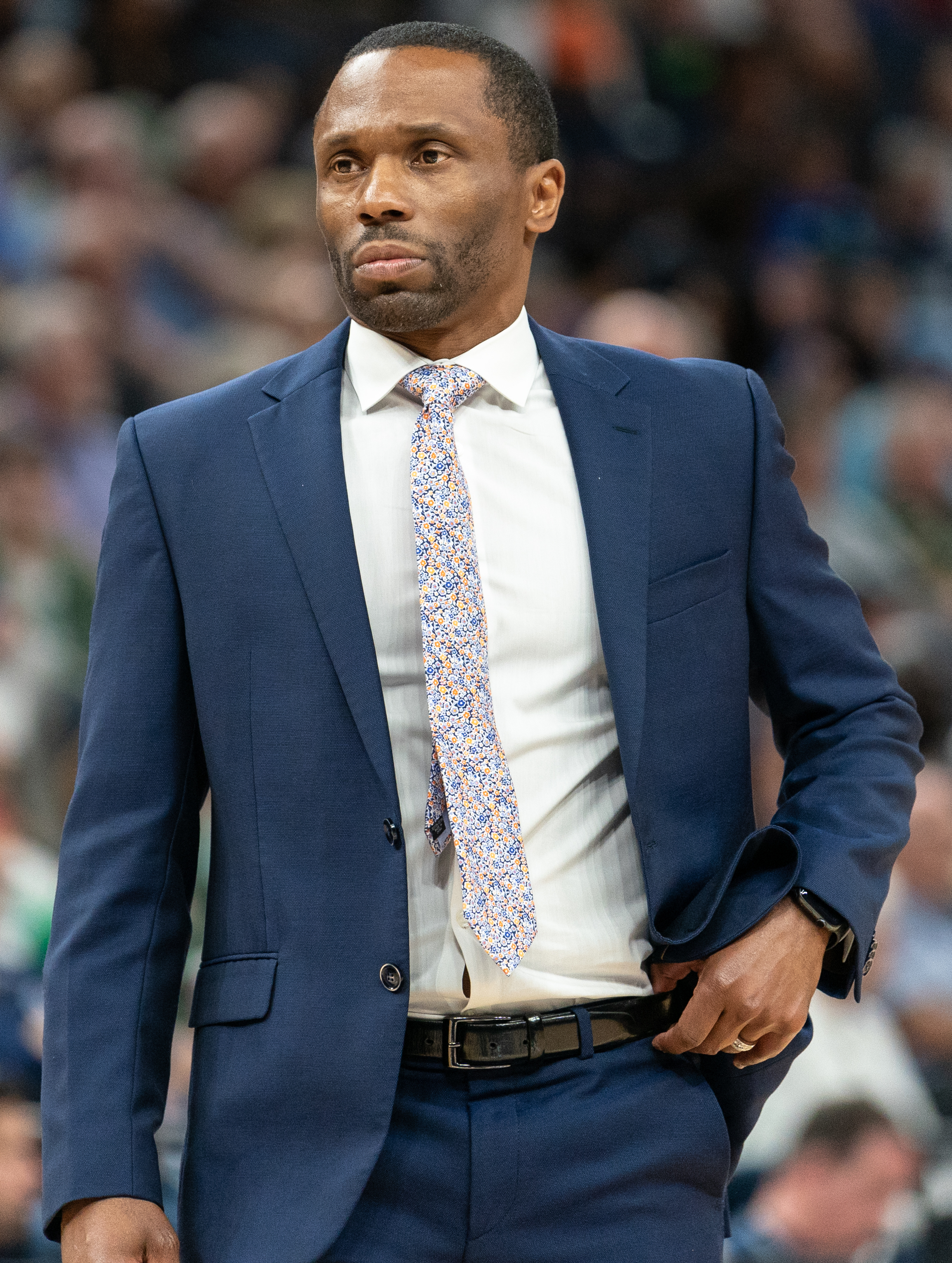 Chicago Sky head coach James Wade in a game against the Minnesota Lynx